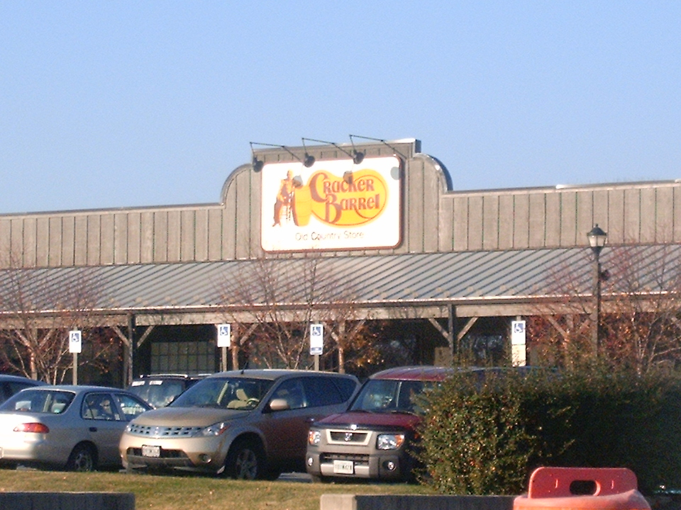 A Cracker Barrel location in Hagerstown, Maryland.